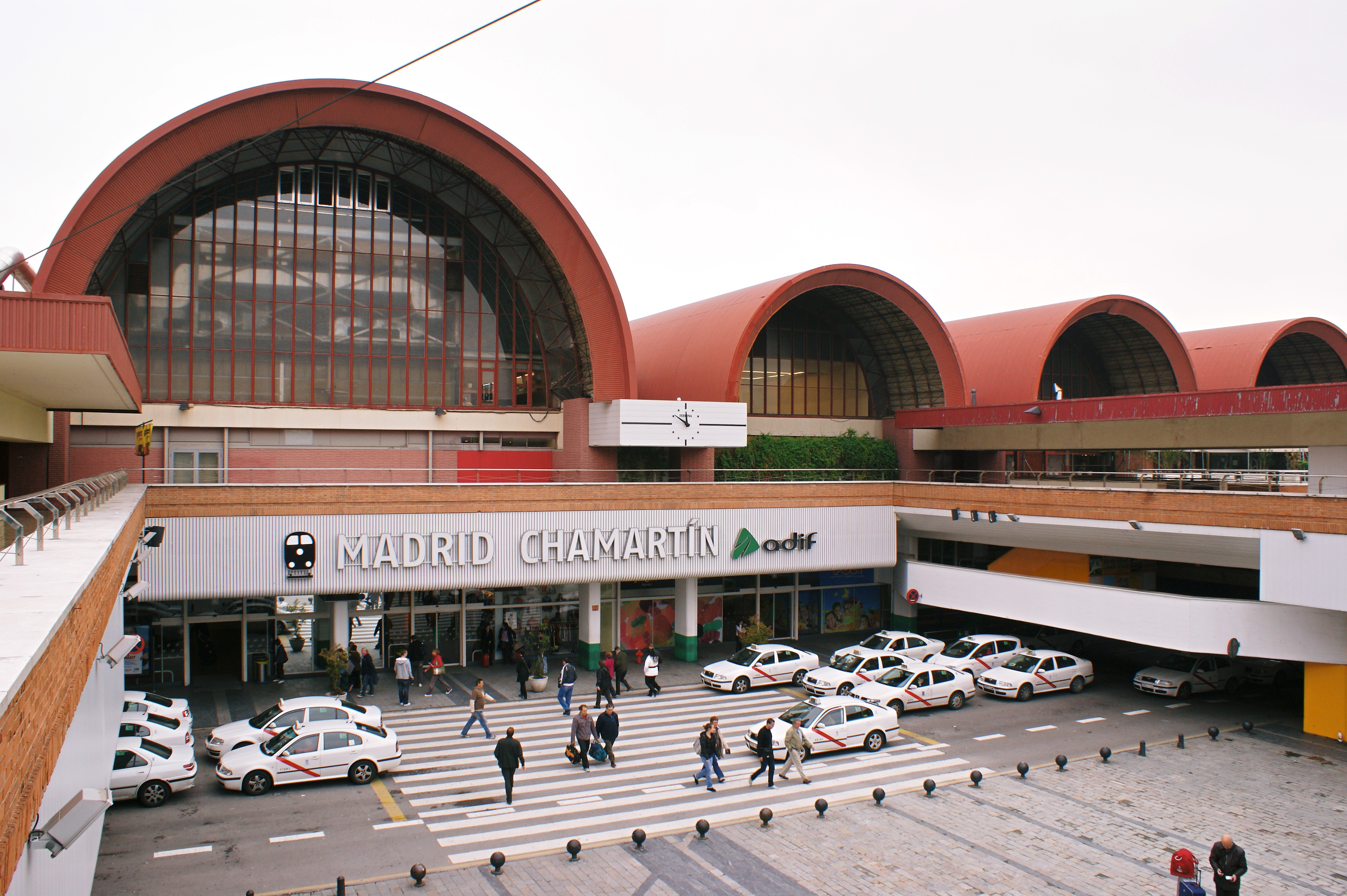 The curious frontage of Charmartin station, Madrid